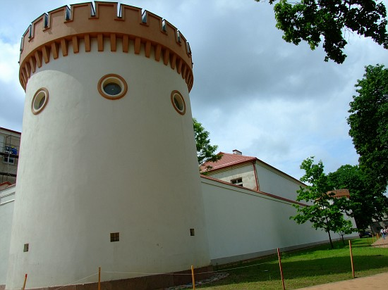 The Tauragė Castle.